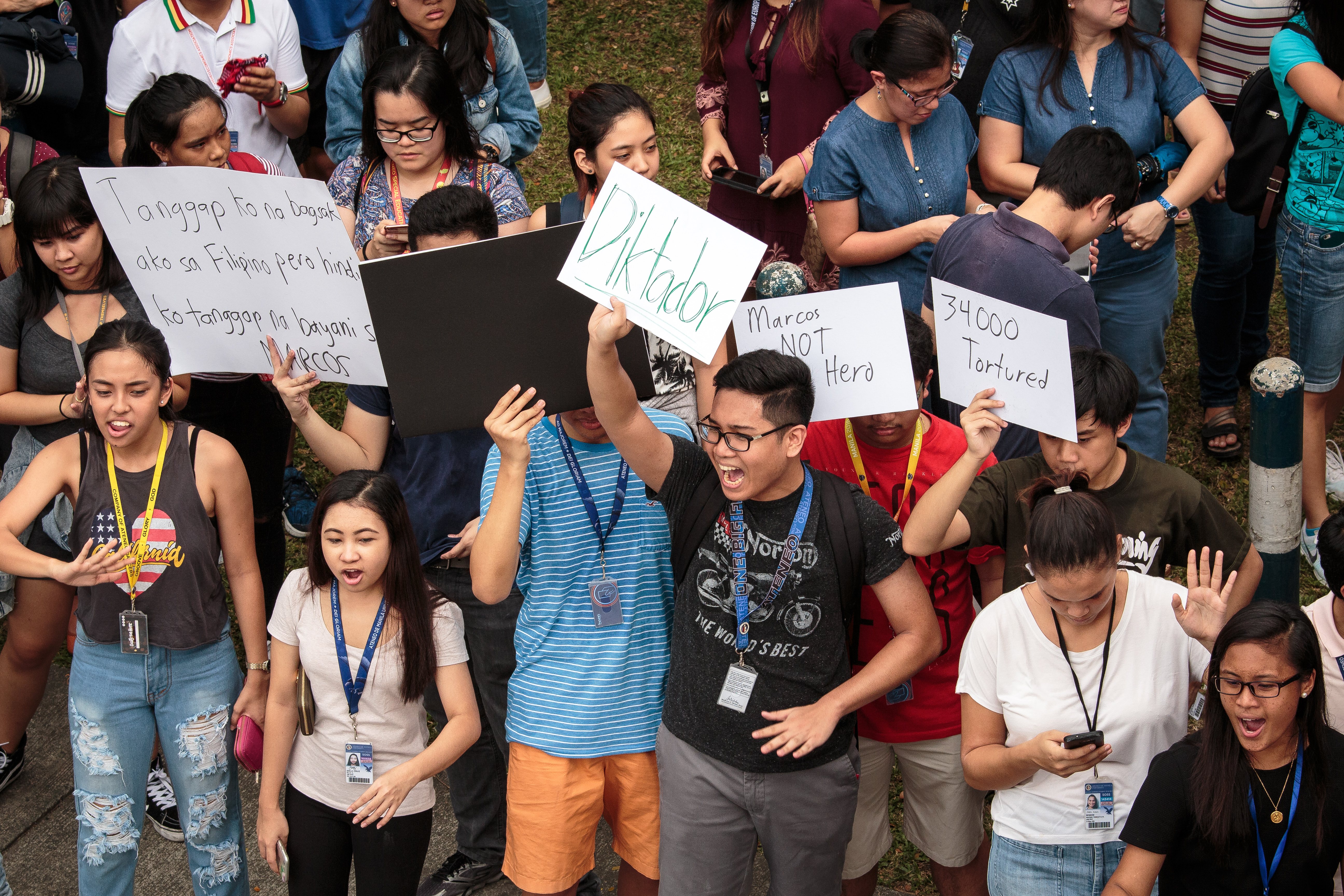 Ateneans gather along Katipunan Road to protest the burial of former President Ferdinand Marcos at the Libingan ng mga Bayani (Heroes' Cemetery).